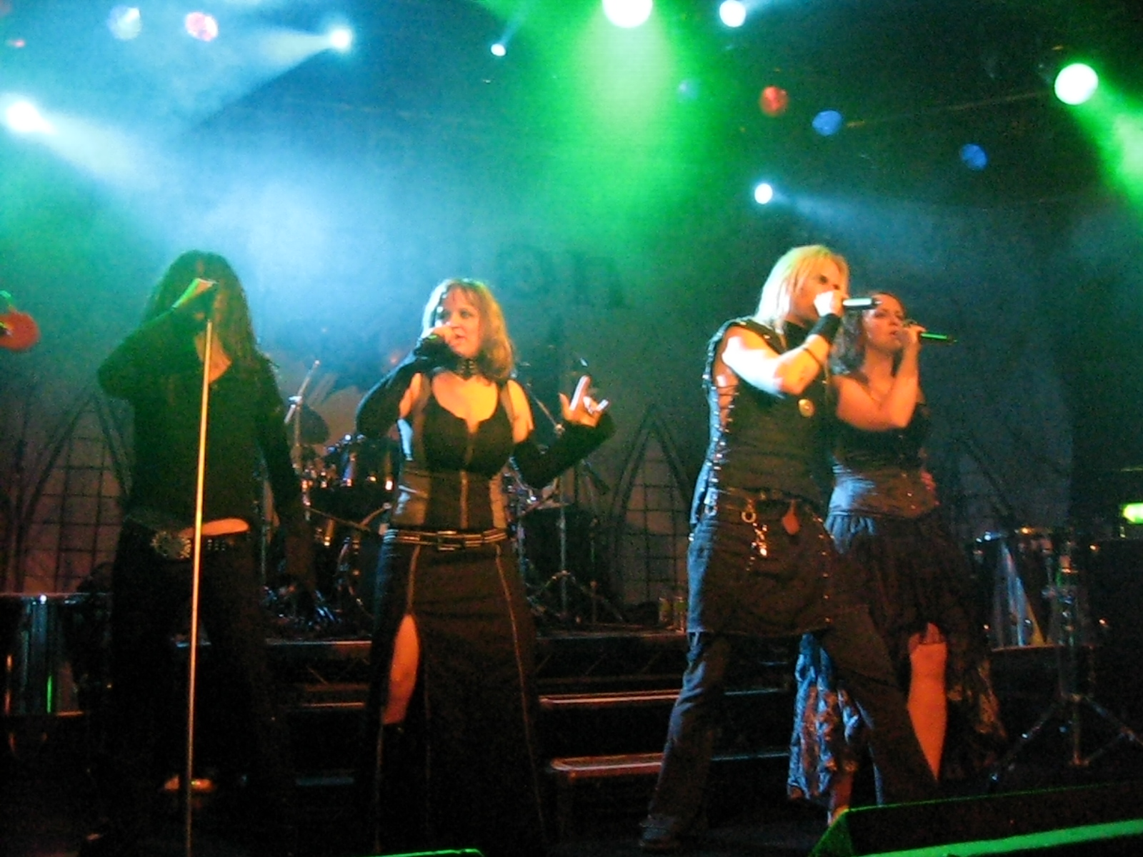 Therion